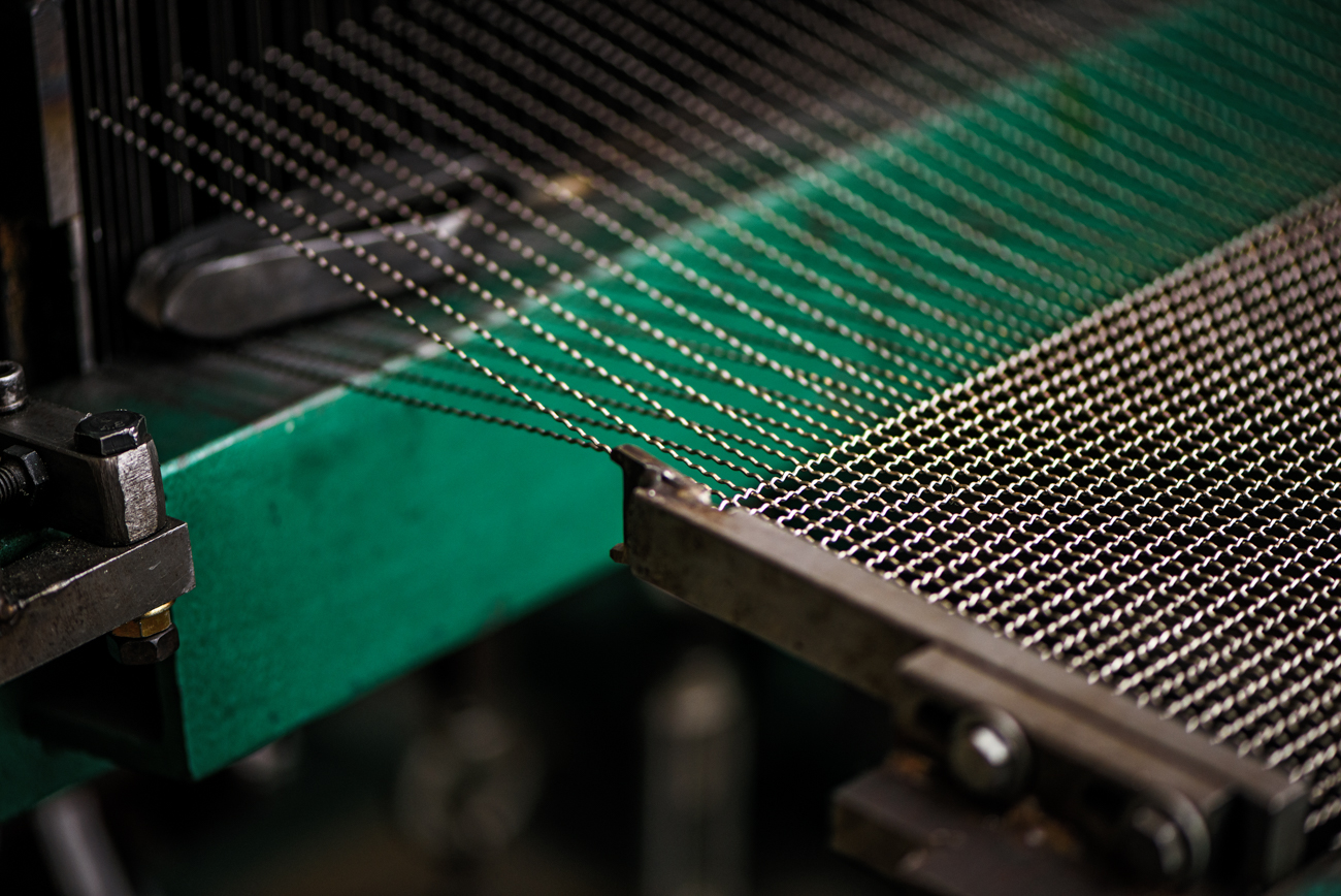 Crimped wire mesh machine - manufacturing